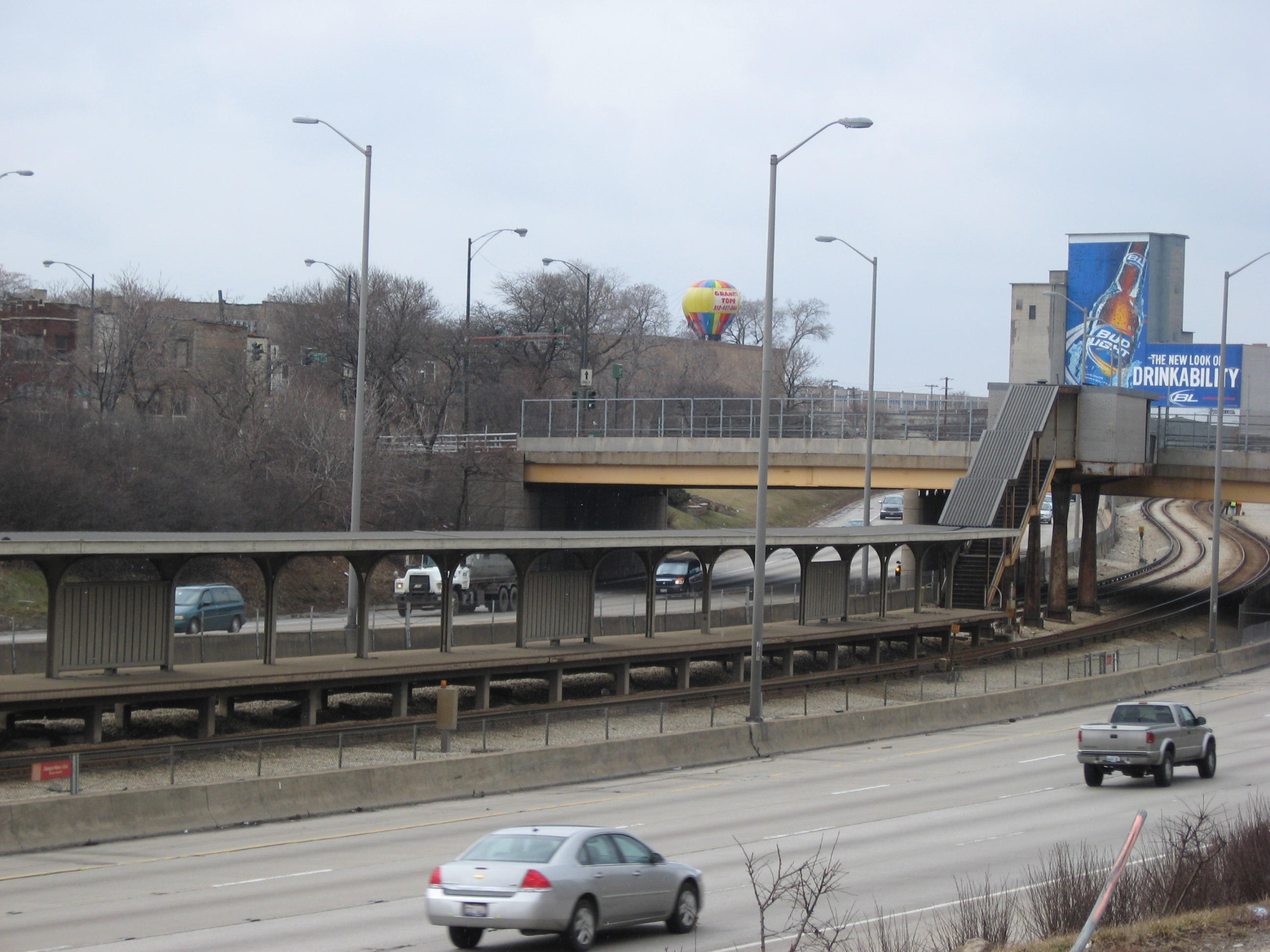 The Shortest Lived CTA Station (August 5, 1962-September 2, 1973)